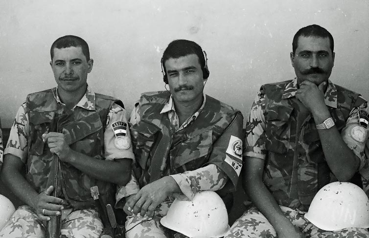 Egyptian soldiers served with the United Nations peacekeeping mission in Mogadishu, Somalia (January 1994). Photo by Peter Rimar.